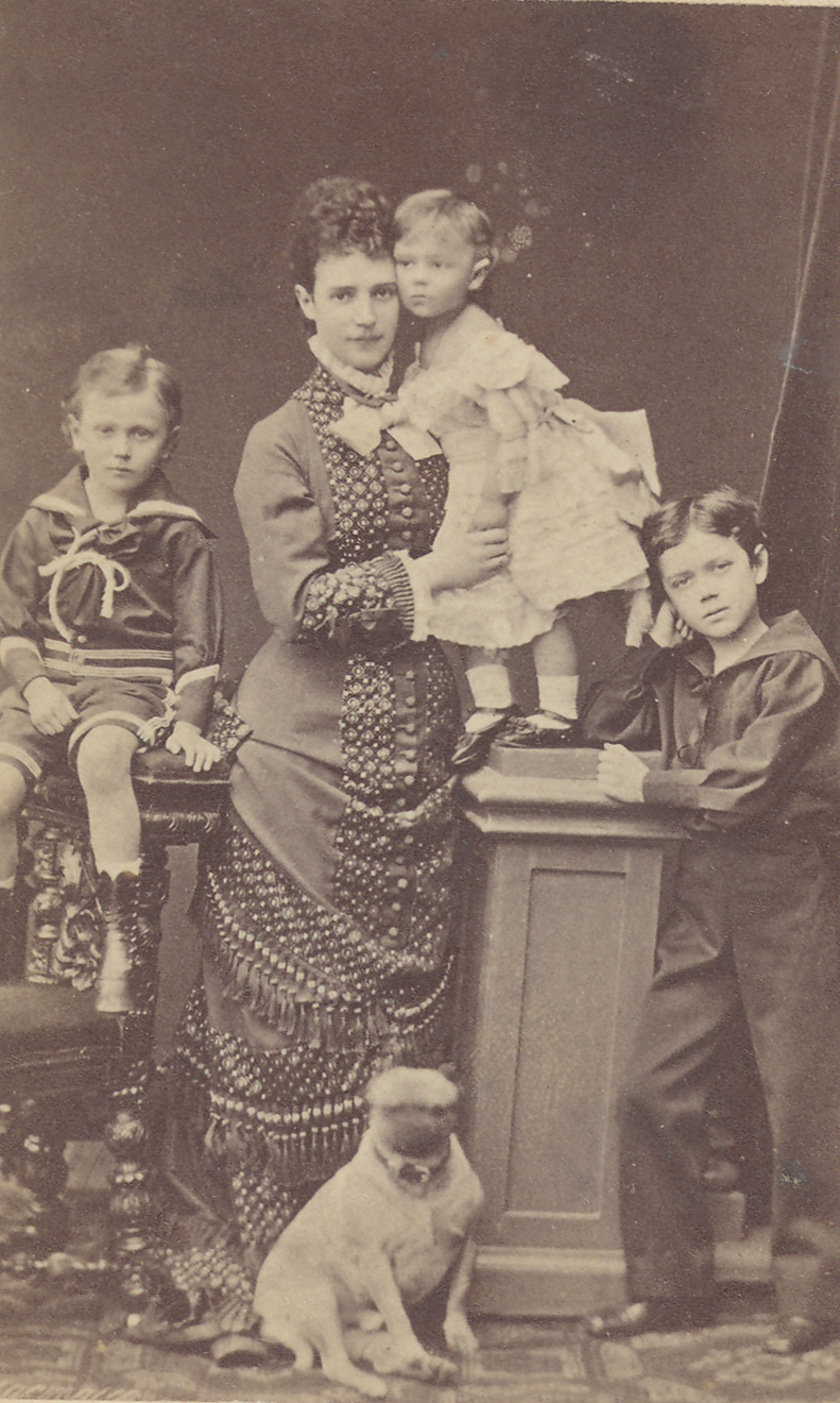 Maria Feodorovna with three children photographed in St. Petersburg, Russia, circa 1879.